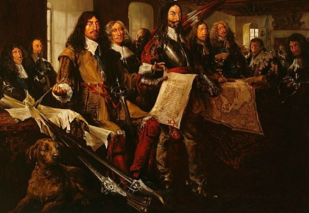 Frederik iii of denmark-norway